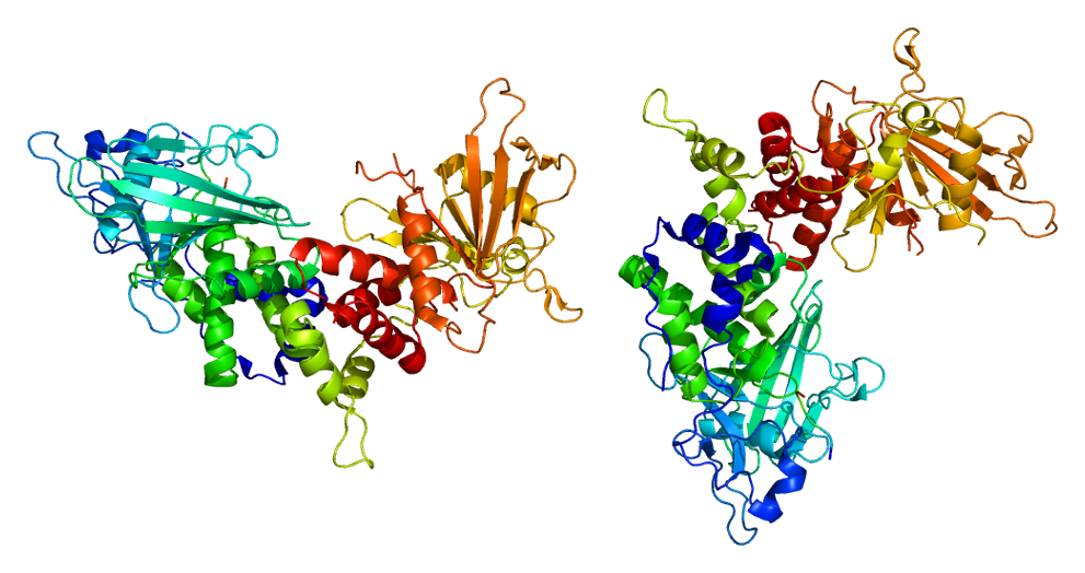 Structure of the PTPRC protein. Based on PyMOL rendering of PDB 1ygr.